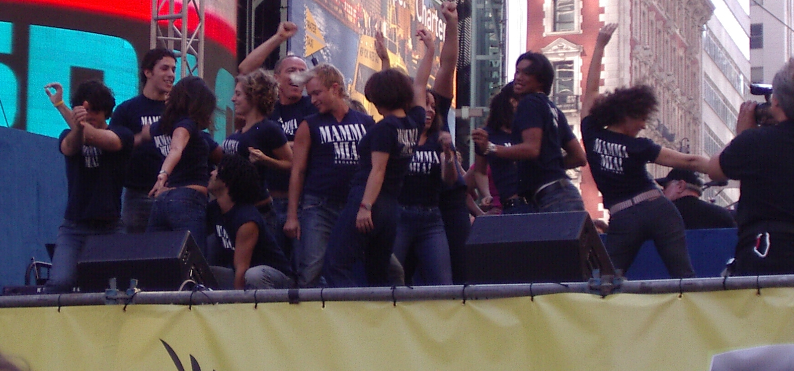 I took this picture of the Mamma Mia cast at Broadway on Broadway, 2005.